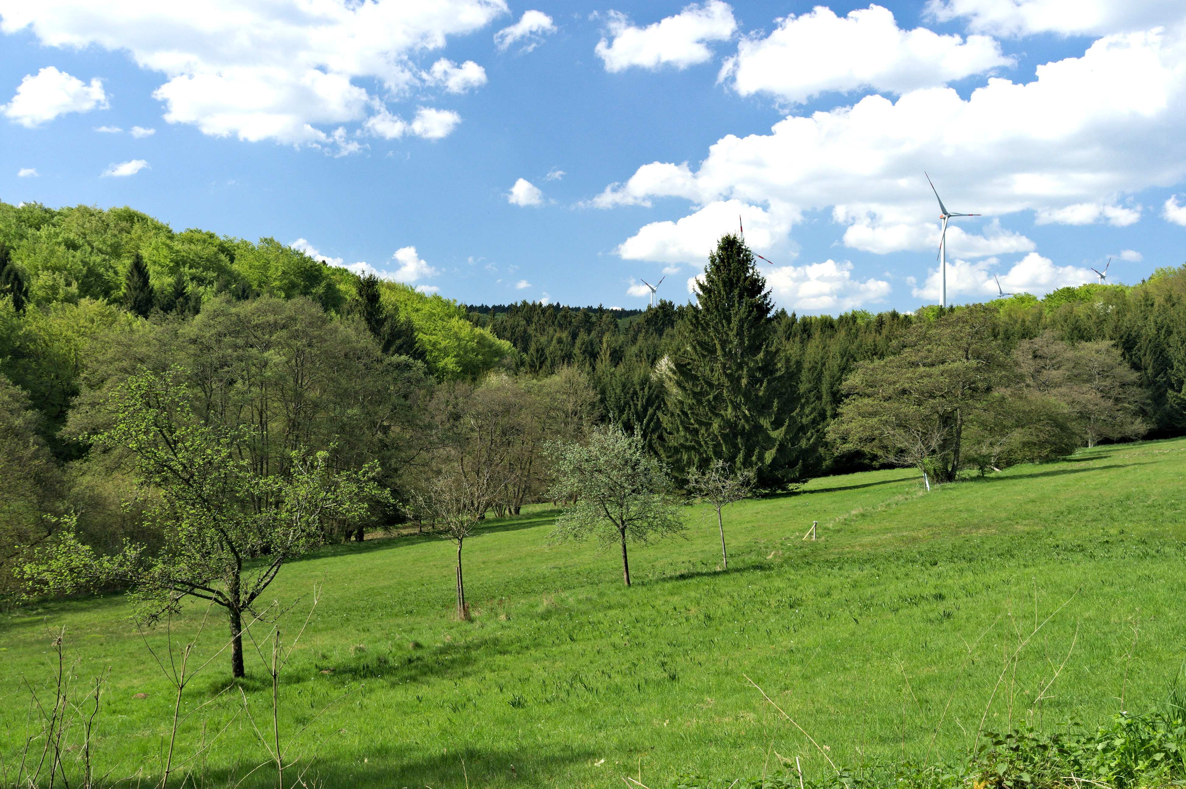 Flora fauna habitate "Unterwesterwald bei Herschbach" in Germany. The meadow in the foreground belongs to the nature reserve "Schimmelsbachtal", too.